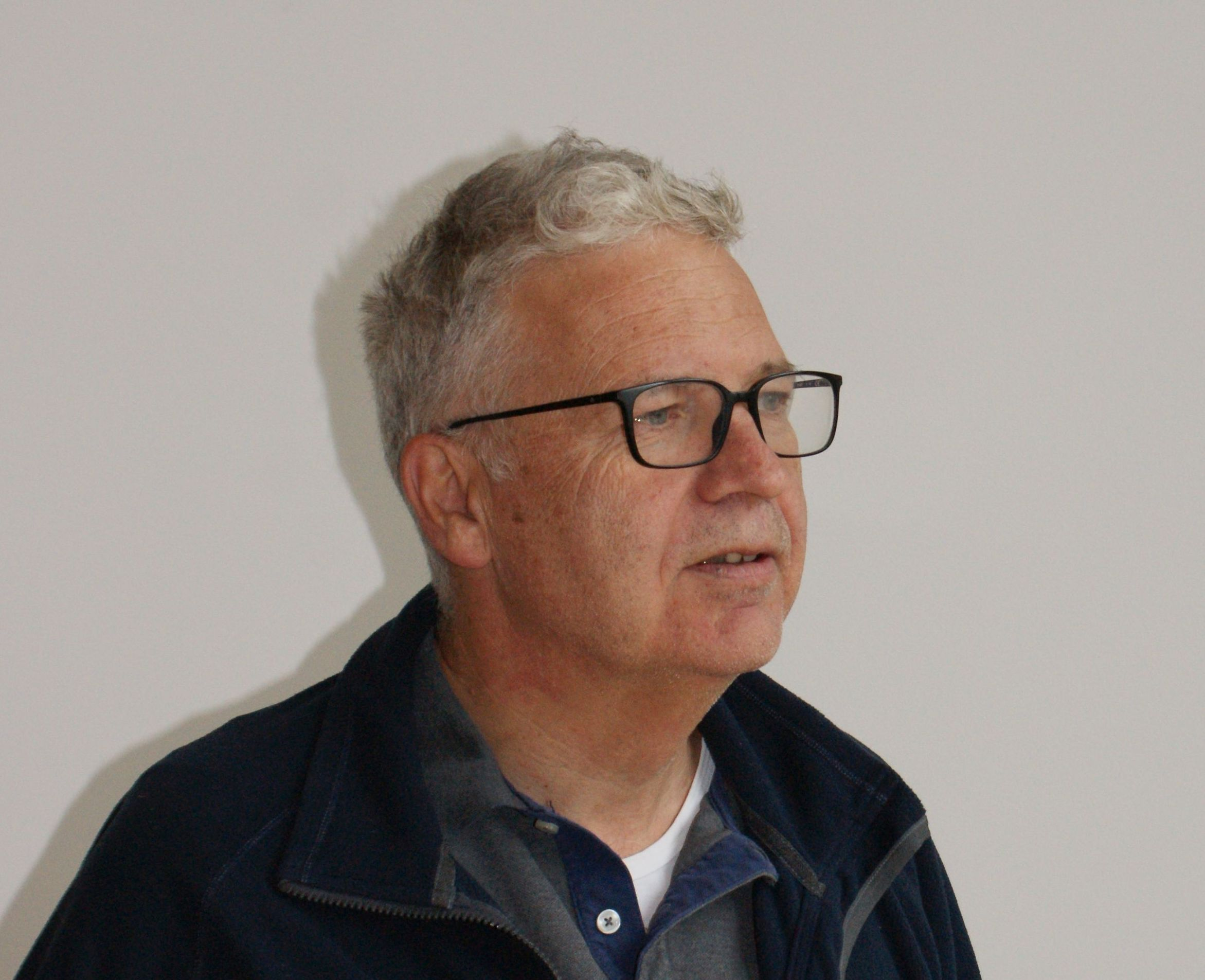 Peter Melichar - Historian in Vorarlberg (Austria).